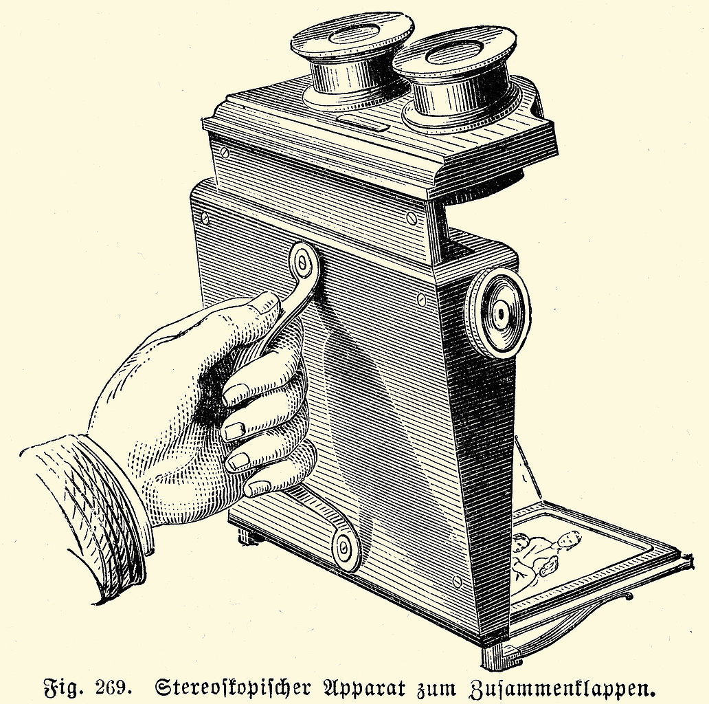 Folding hand-held lenticular stereoscope 1877, David Brewster constr.